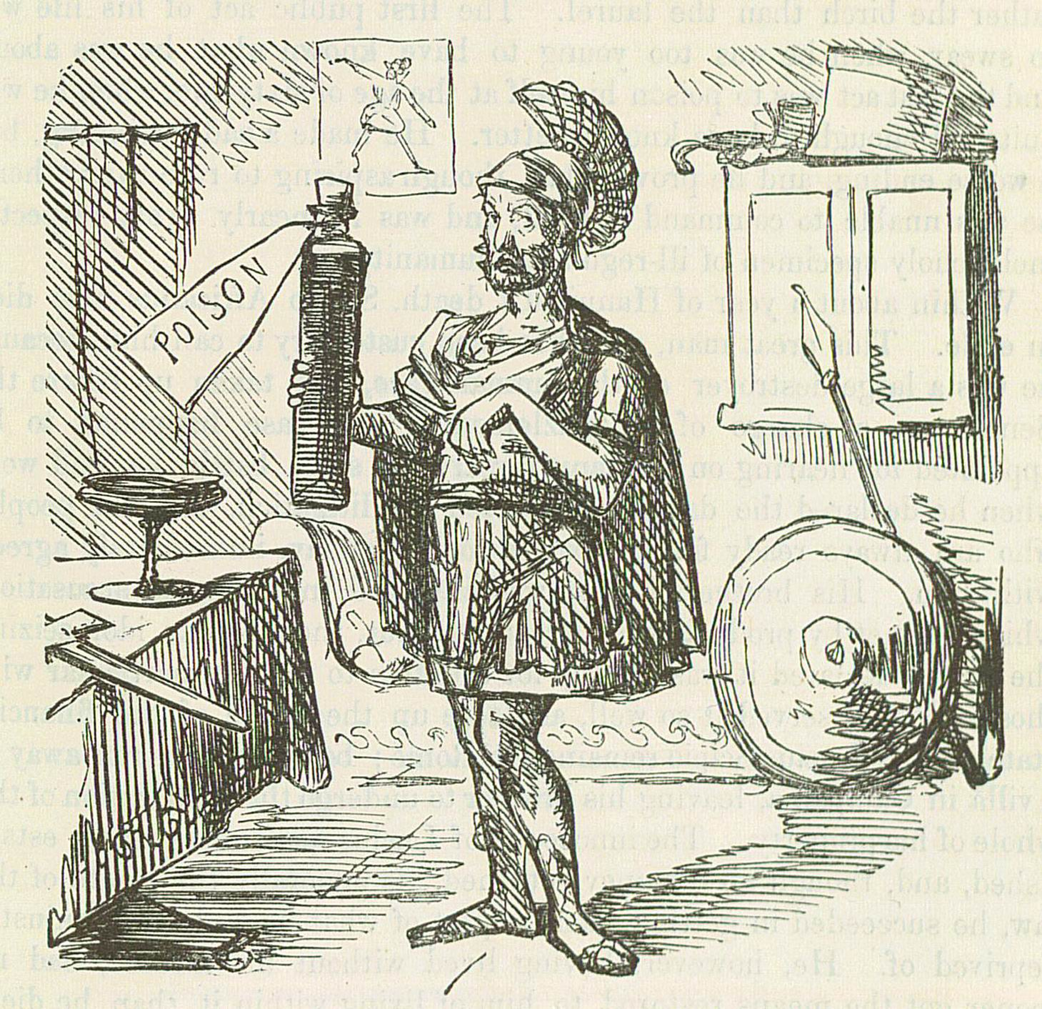 Image by John Leech, from: The Comic History of Rome by Gilbert Abbott A Beckett. Bradbury, Evans & Co, London, 1850s Hannibal makes the usual neat and appropriate Speech previous to killing himself